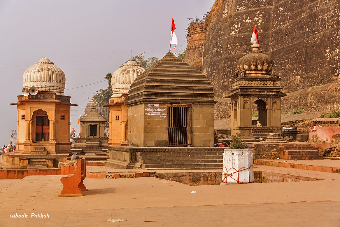 Samadhi of Ahilyadevi Holkar